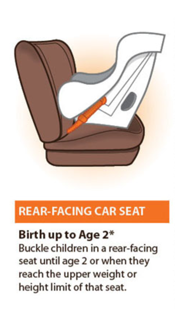 CDC image of the car seat required by infants